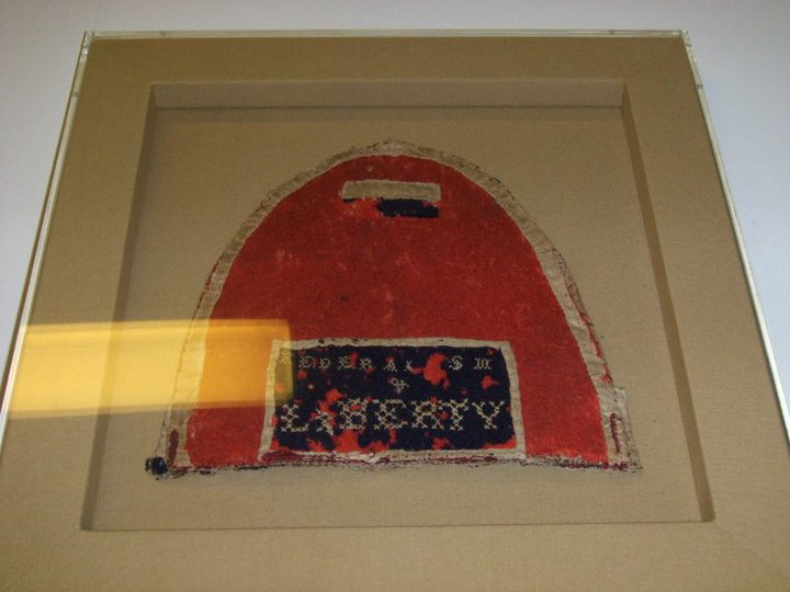 Mitre of Toby Gilmore in Taunton Massachusetts